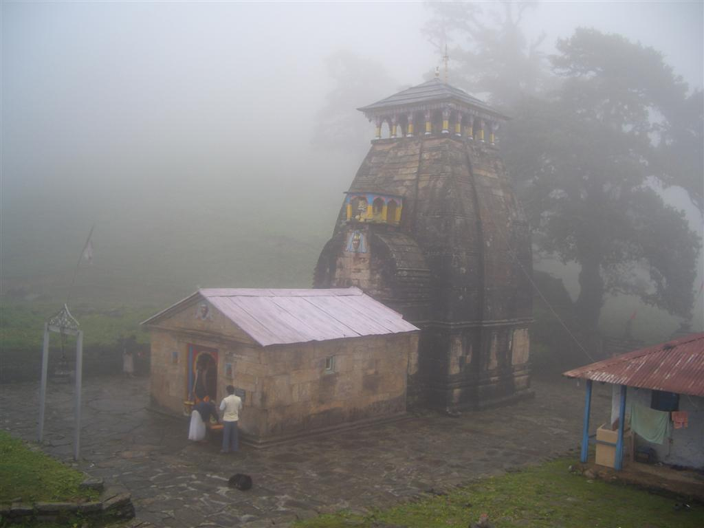 Madhyamaheswar Temple